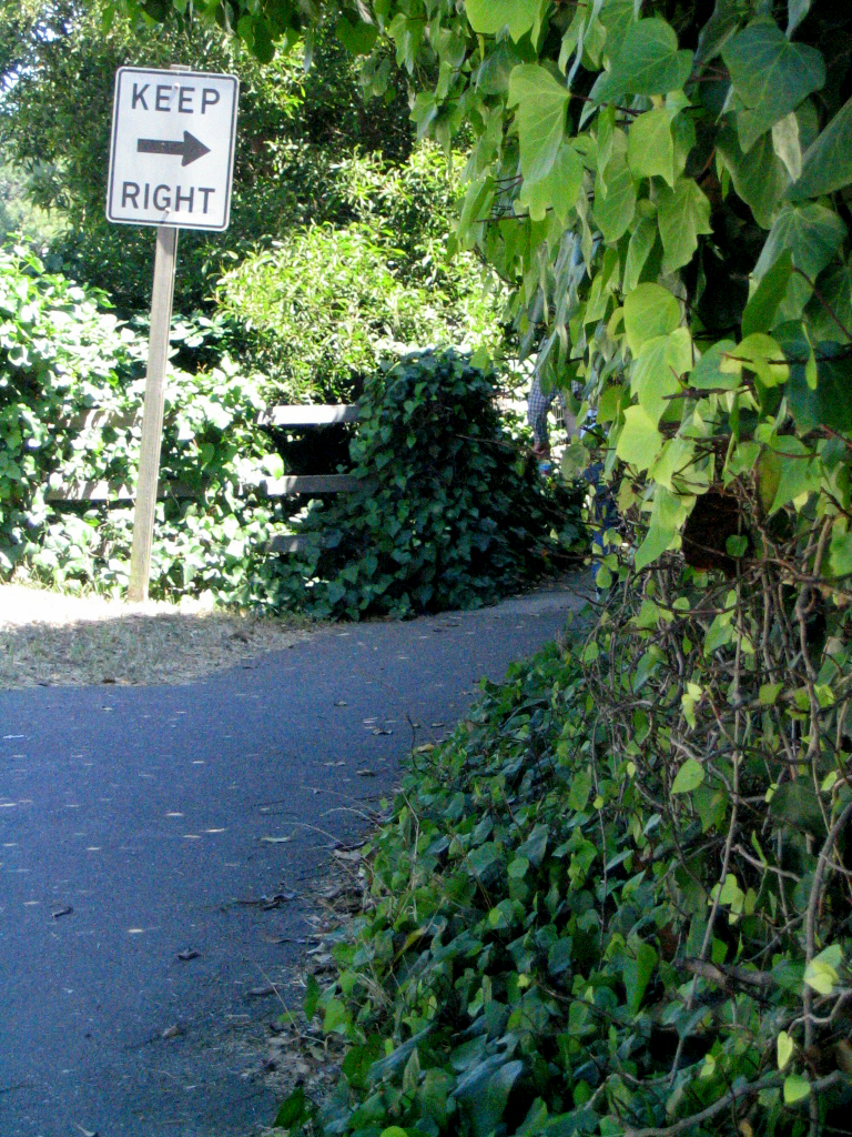 The former railroad grade now forms part of the San Francisco Bay Trail, used by hikers and cyclists. Within the Tiburon town limits, the trail passes through the Richardson Bay Park and next to the Audubon Society's Richardson Bay Sanctuary.